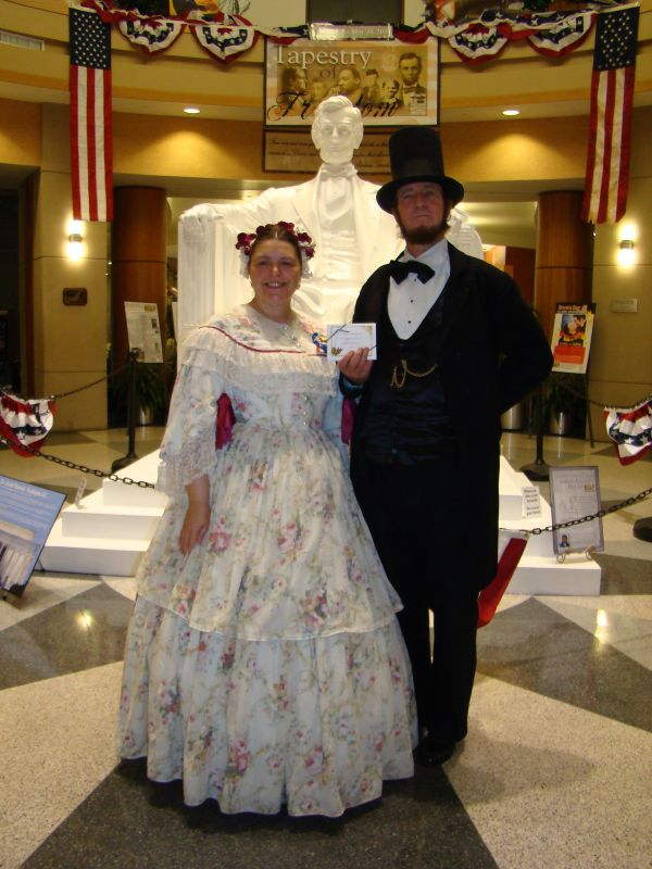 People playing Abraham Lincoln and Mary Todd Lincoln at the Tapestry of Freedom exhibit, Gail Borden Public Library, Elgin, Illinois. Funding for this grant was awarded by the Illinois State Library (ISL), a Division of the Office of Secretary of State, using funds provided by the Institute of Museum and Library Services (IMLS), under the federal Library Services and Technology Act (LSTA).